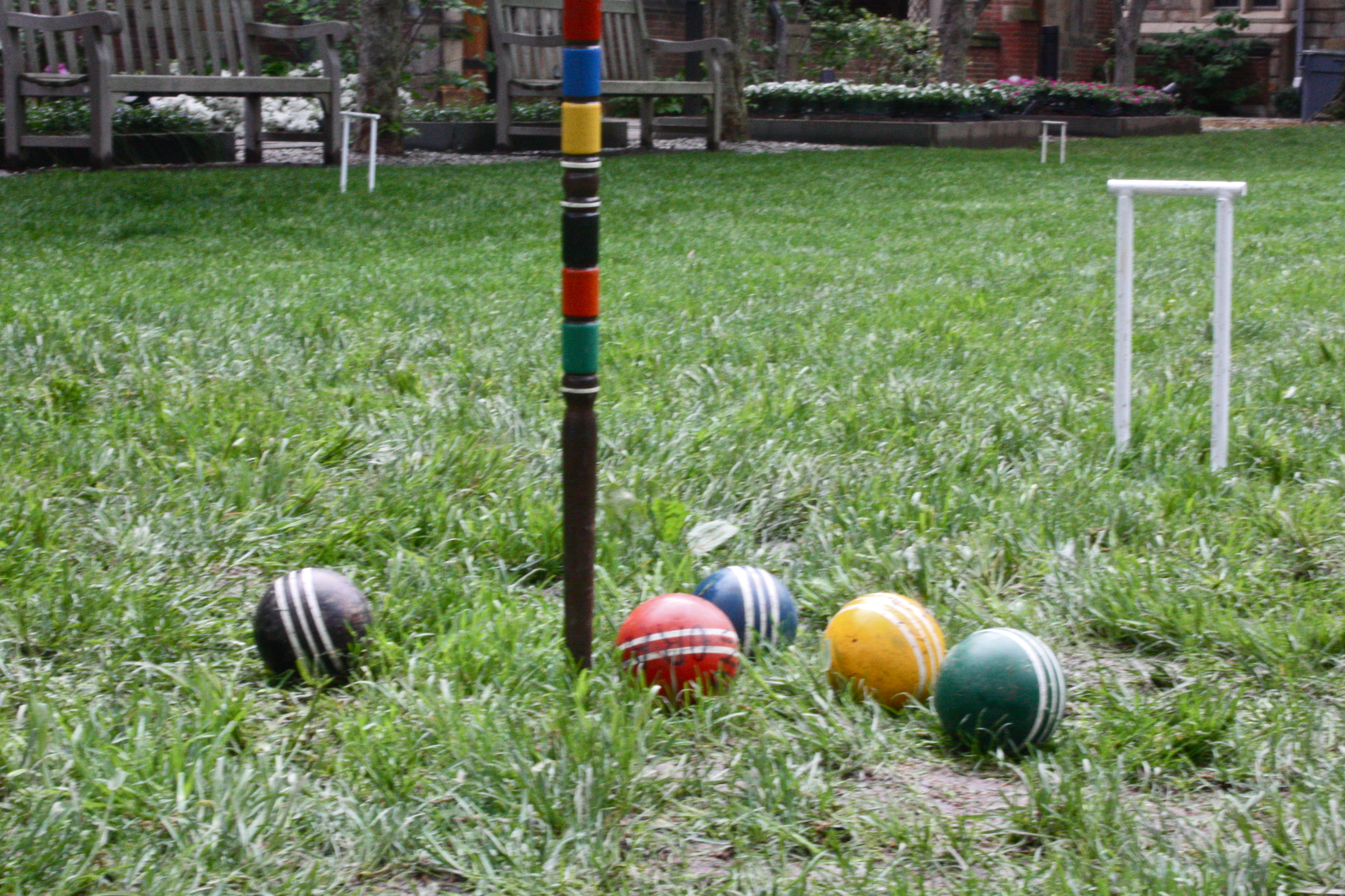 croquet